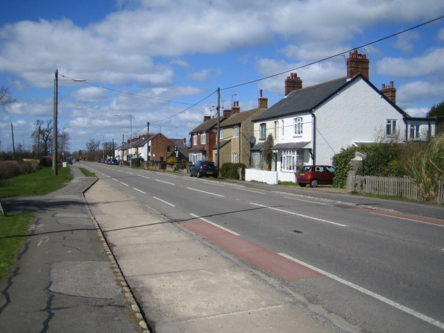 Aston Clinton: Aylesbury Road. Formerly the Roman Road Akeman Street, and formerly the A41, now by-passed and just plain old Aylesbury Road.